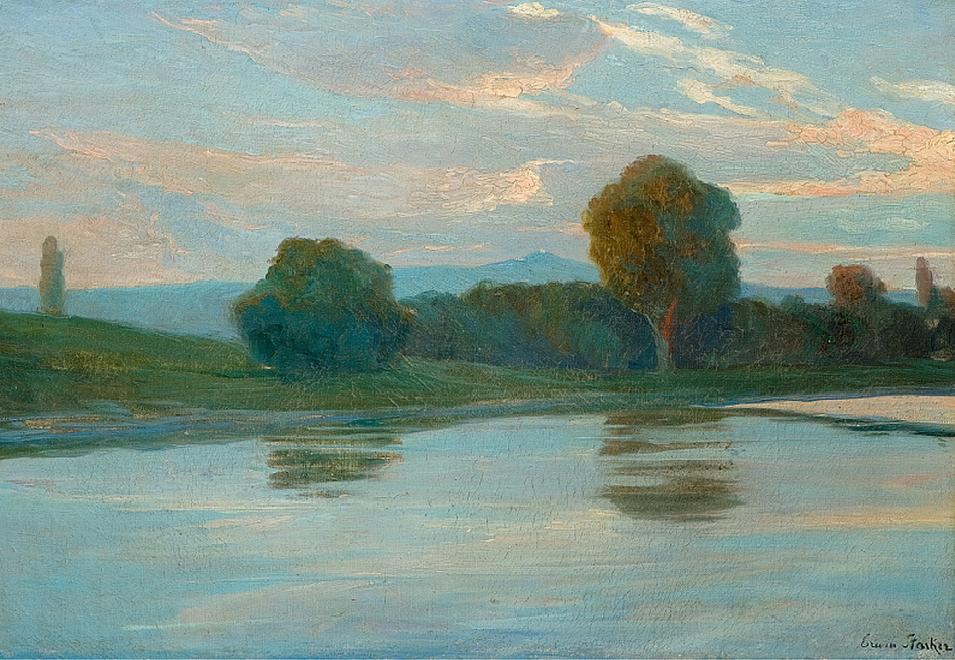 Lake Constance. Oil on canvas. 42 x 60 cm